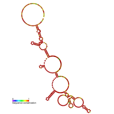 Secondary structure image for NRON non coding RNA (RF00636). Nucleotide colouring indicates sequence conservation between the members of this family.